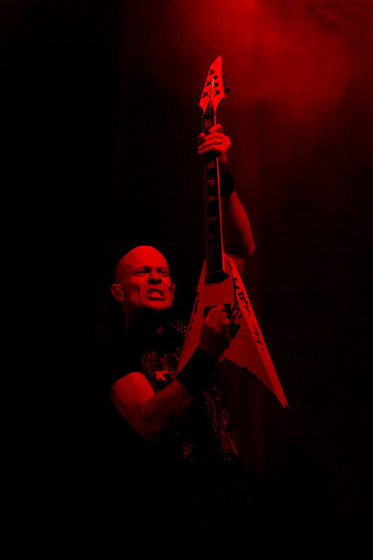 Wolf Hoffmann, Minsk, Belarus, Franz Mercury Photography.